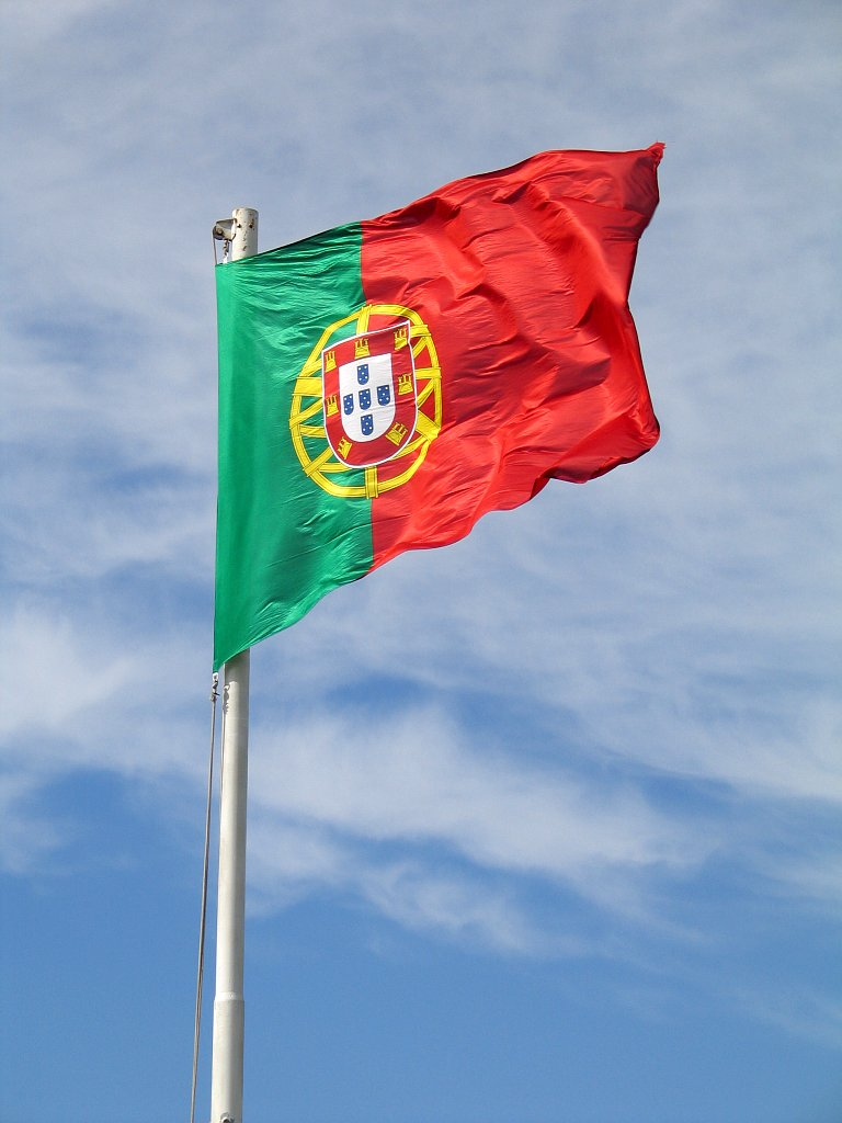 Photo of the Portuguese flag.